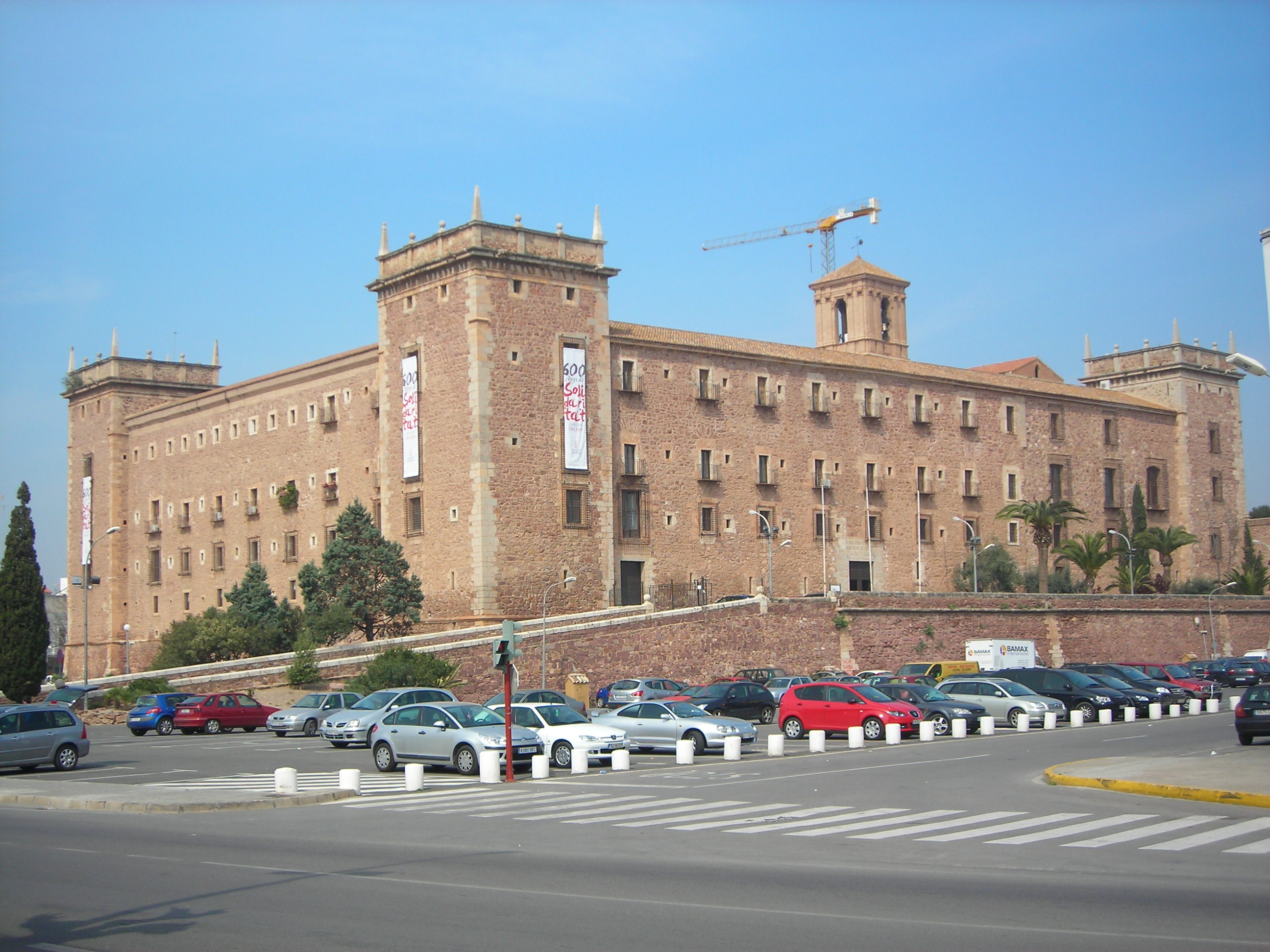 Side view of the monastery in El Puig, Valencia